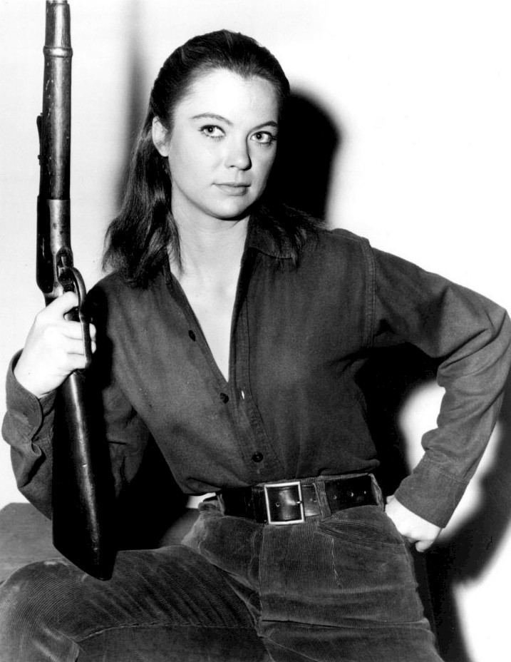 Photo of Louise Fletcher as a guest star on the television series Lawman.